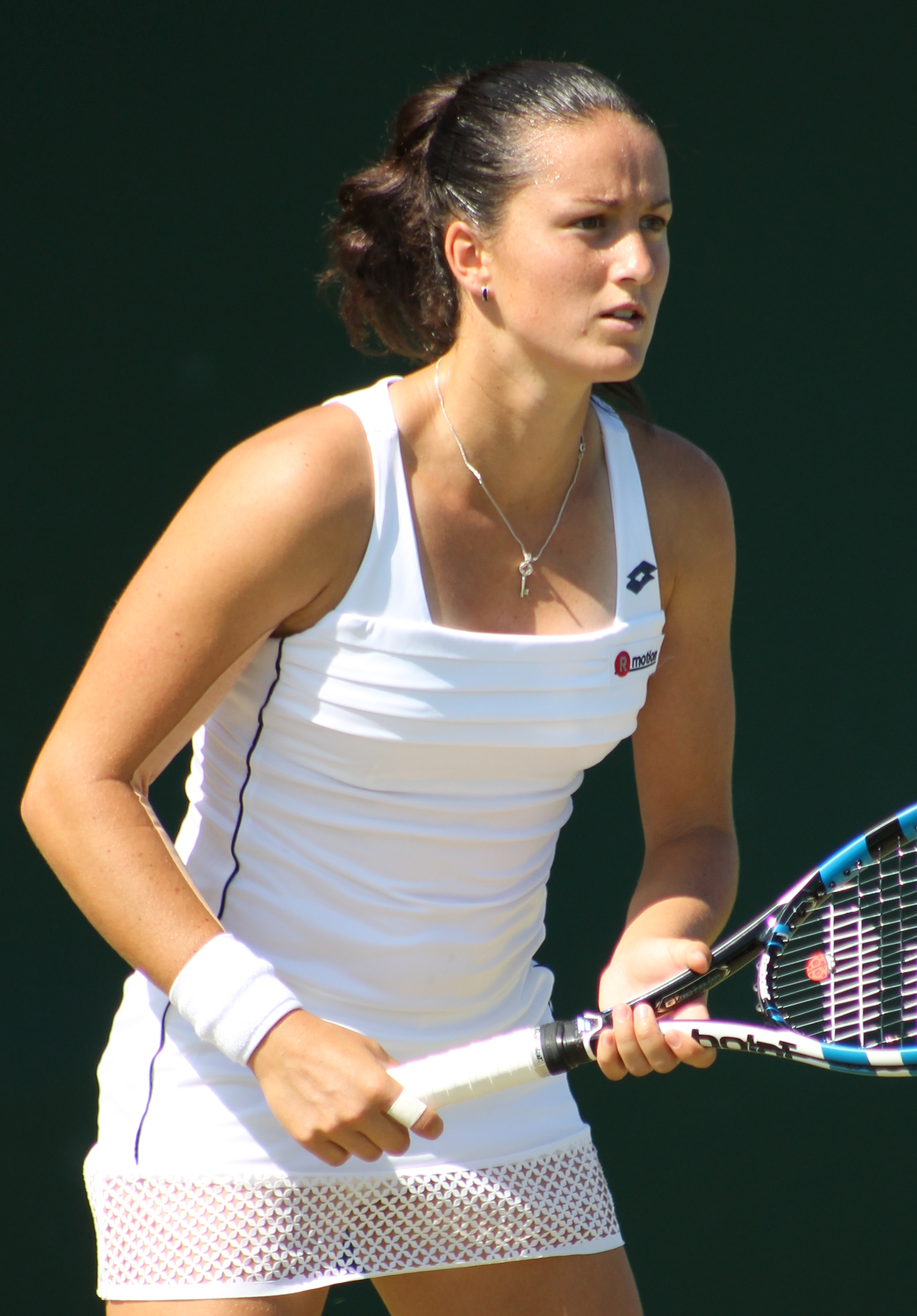 Lara Arruabarrena at the 2015 Wimbledon Championships